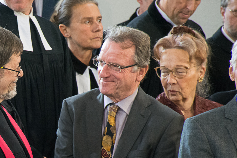 Herwig Sturm.